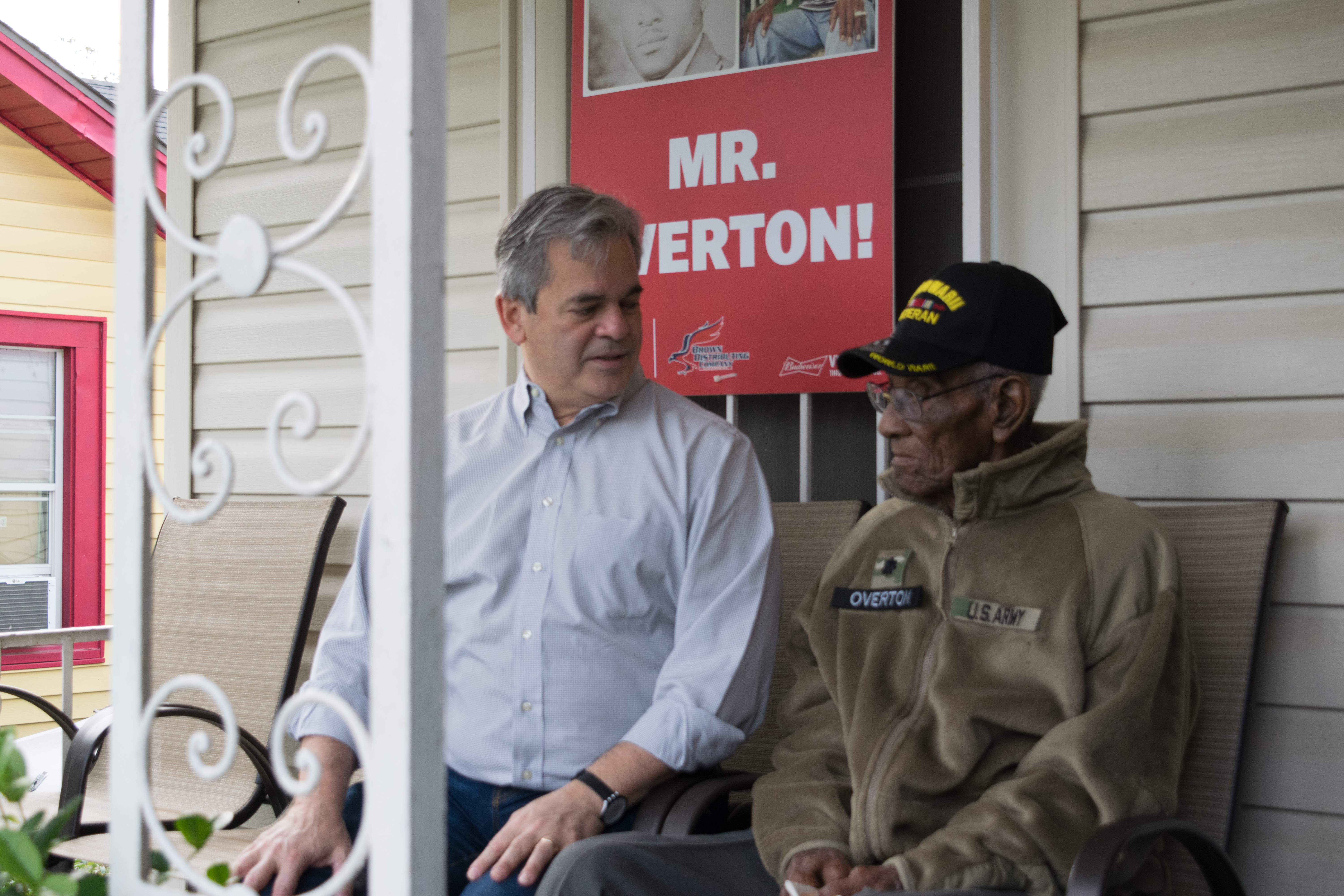 Mayor of Austin Steve Adler meeting with Richard Overton.